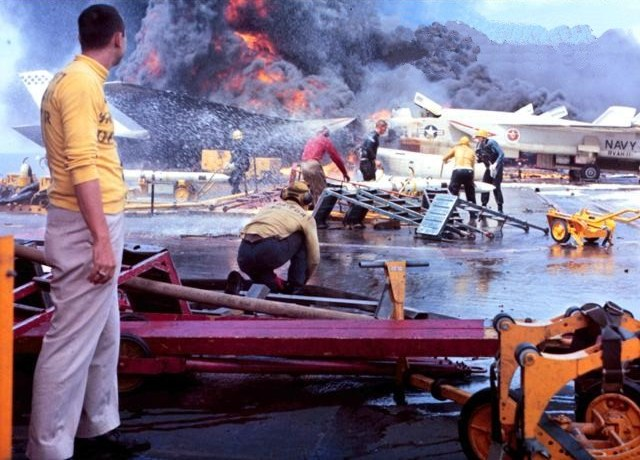 View of the fire on the U.S. aircraft carrier USS Forrestal (CVA 59) on 29 July 1967 in the Gulf of Tonkin during the Vietnam war, when an accidentially launched rocket led to a catastrophe that killed 134, and injured 62. 21 aircraft of Attack Carrier Air Wing 17 (CVW-17) were destroyed.